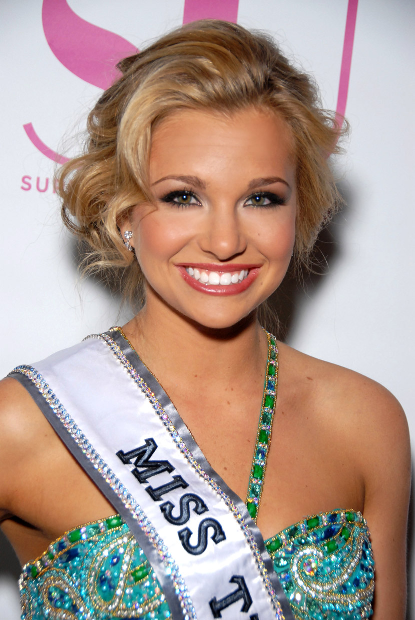 Miss Teen USA 2011 - Danielle Doty, Las Vegas, Nevada on May 28, 2012 - Photo by Glenn Francis of